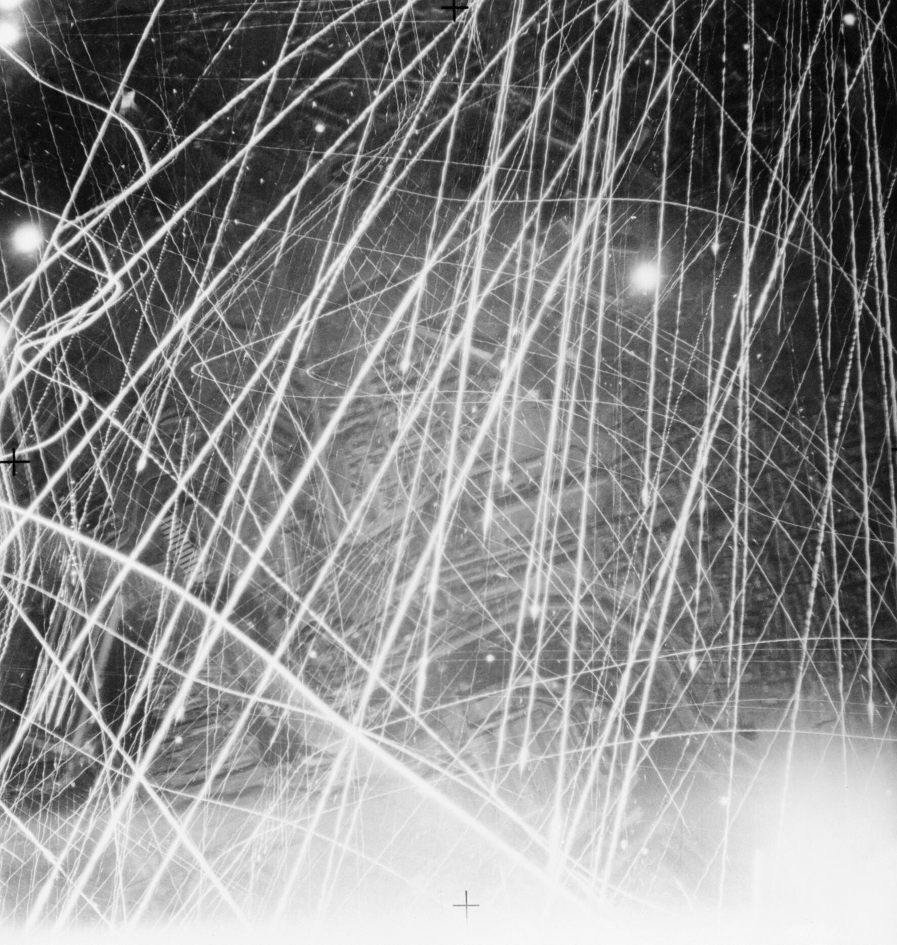 Royal Air Force Bomber Command, 1939-1941. Tracer from German anti-aircraft gun fire (flak) vividly depicted in a vertical aerial photograph taken over the Port Militaire, Brest, France, during a night raid, possibly that of 4/5 January 1941.